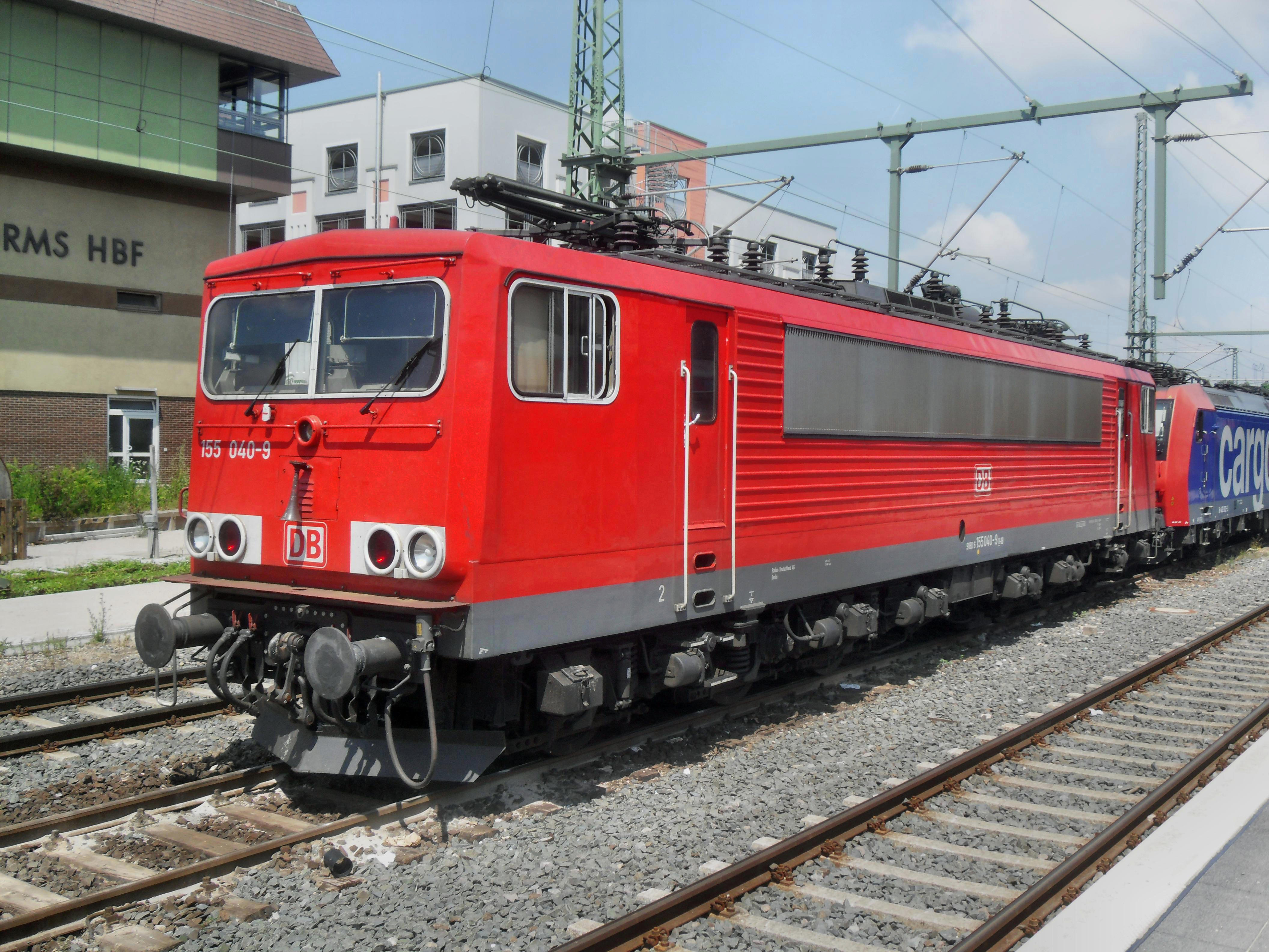 Electrolocomotive 155 040-9 (DR Class 250 / DBAG Class 155) in Worms main station (Germany); picture taken from the platform (track 5), looking in the direction of Mainz.